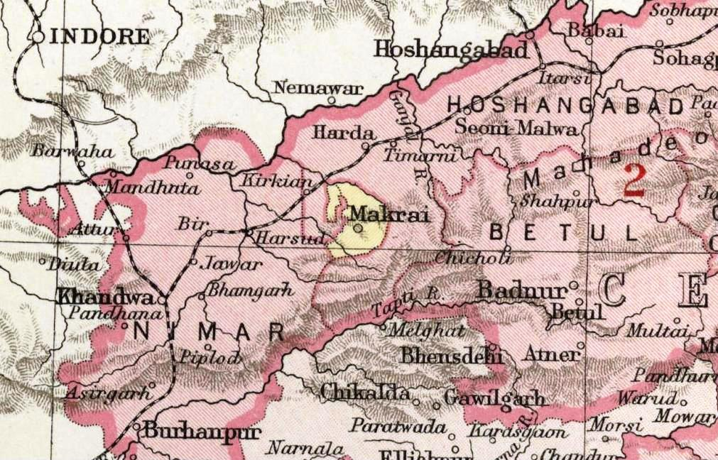 1909 Imperial Gazetteer of India Central India map section